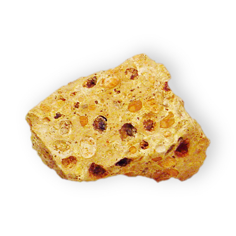 These mineral images are free to use how you wish.